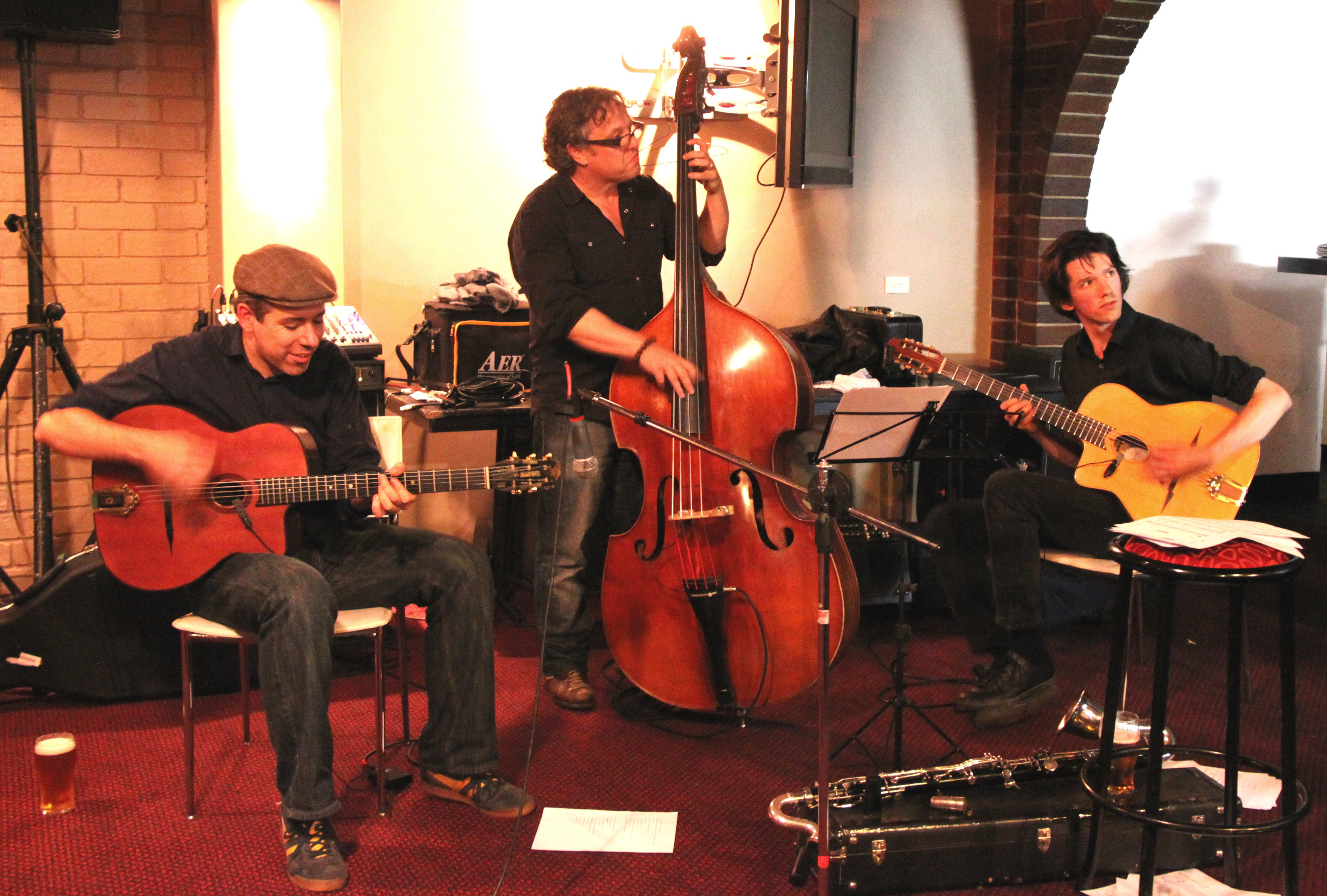 The Jon Delaney Trio (Australian jazz musicians) perform in Hobart, Australia, November 2011 (Tony Rees photograph). L-R: Jon Delaney, guitar; Nick Haywood, double bass; Josh Dunn, guitar.